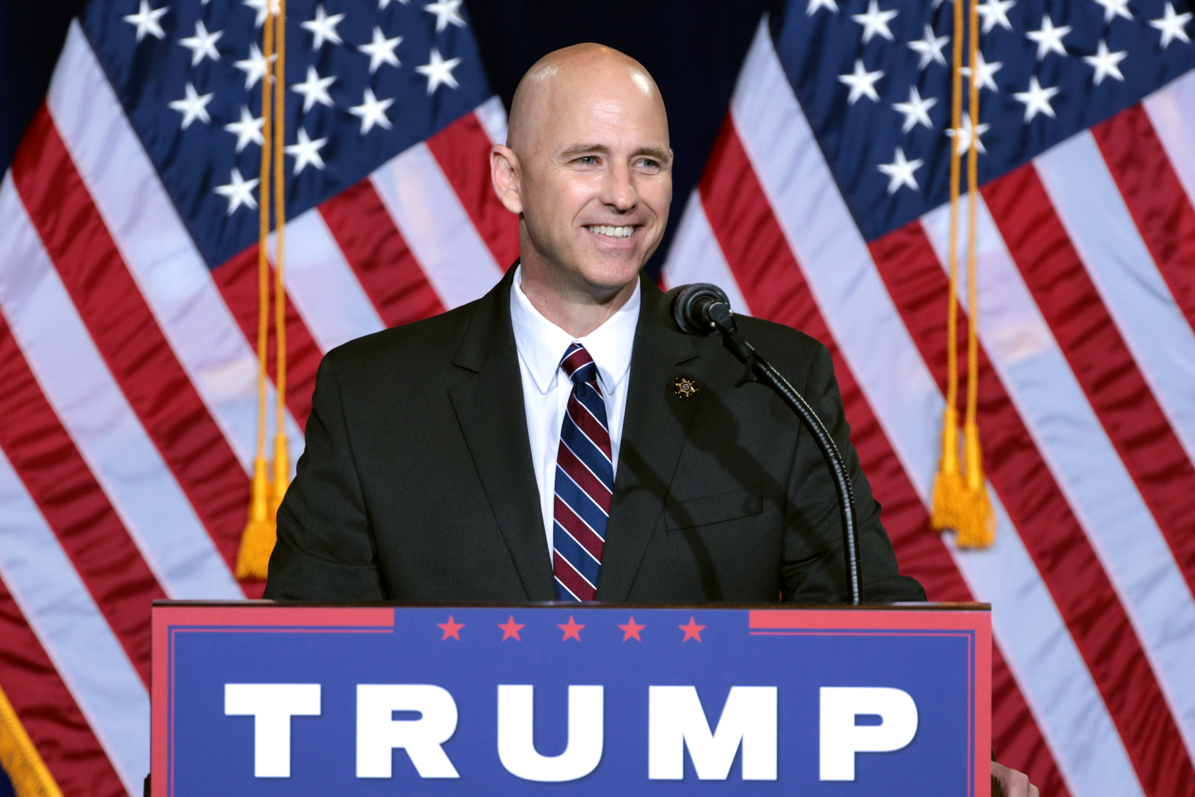 Paul Babeu speaking at an immigration policy speech hosted by Donald Trump in Phoenix, Arizona.